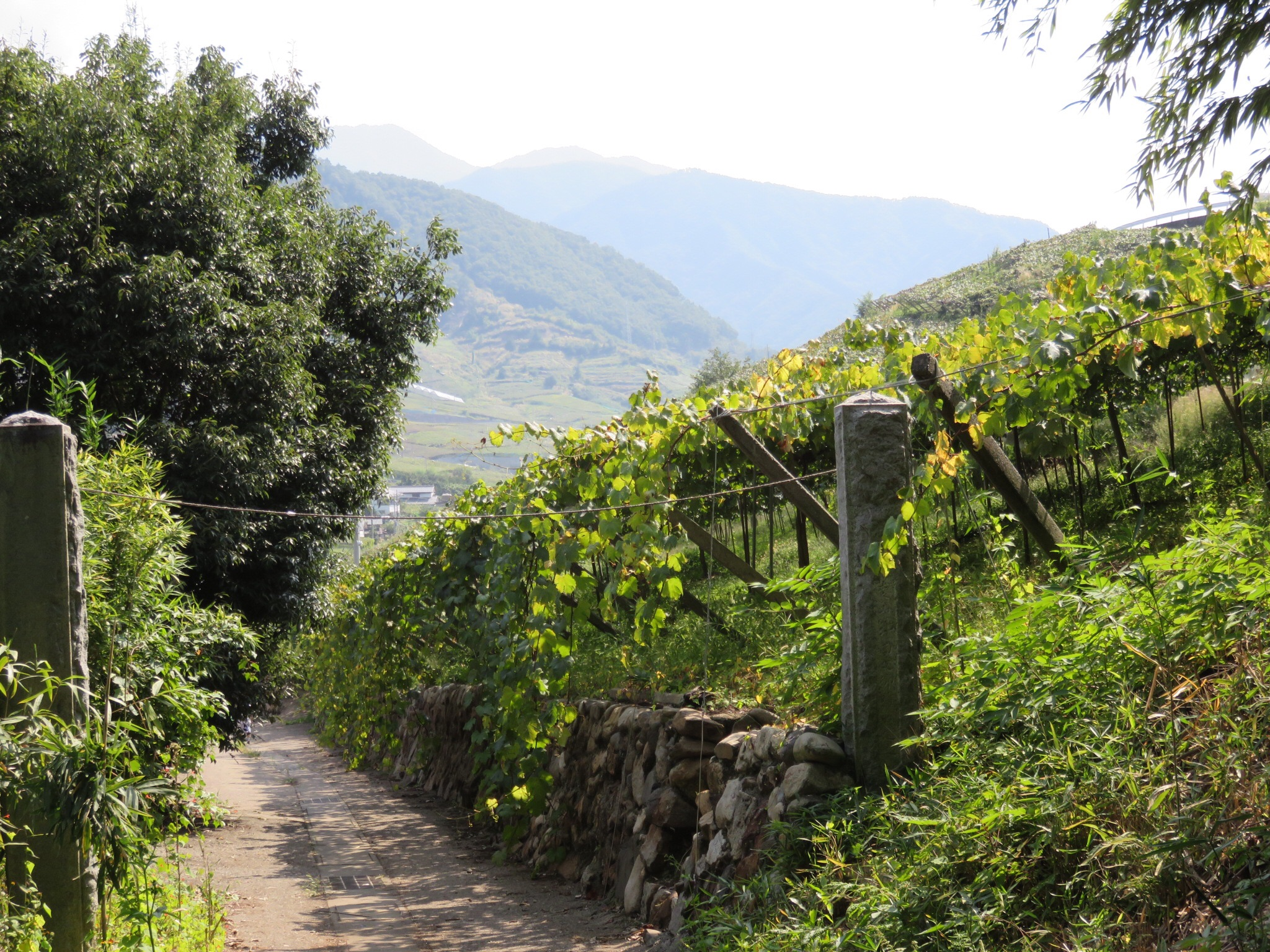 Katsunuma, Yamanashi